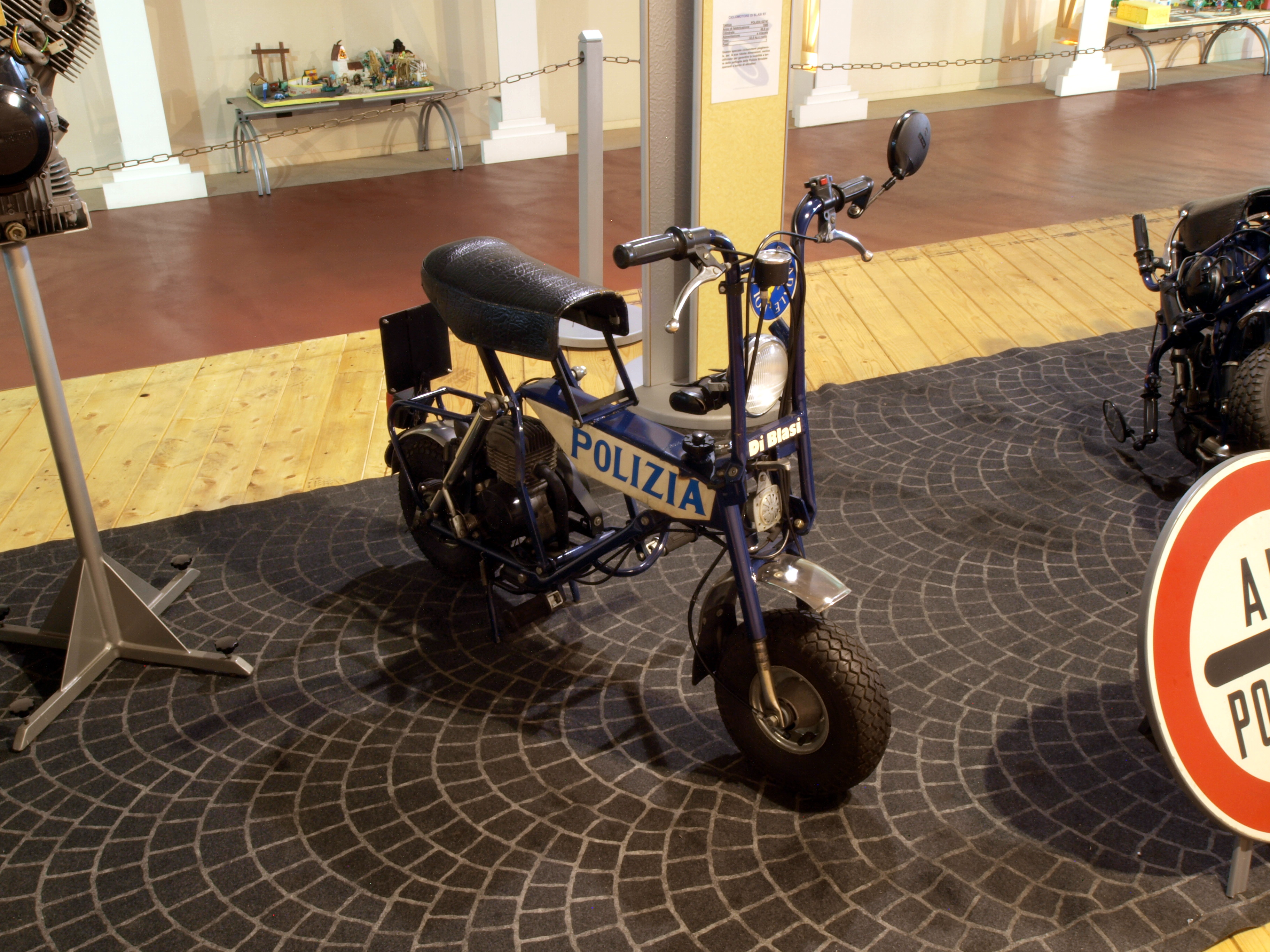 Di Blasi foldable italian police scooter. Photographed at Rome, Italy.